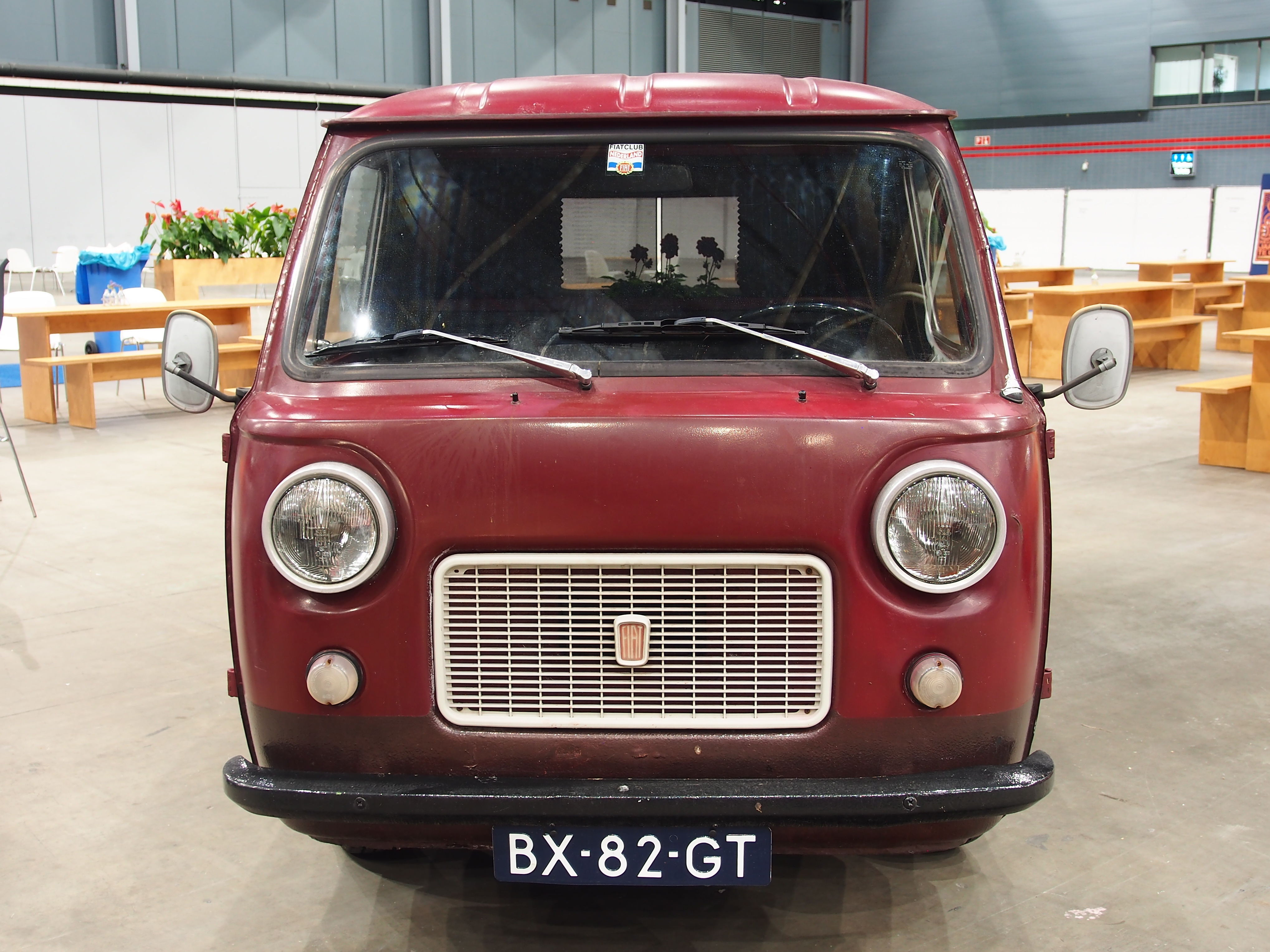 Fiat 850 photographed in Utrecht.